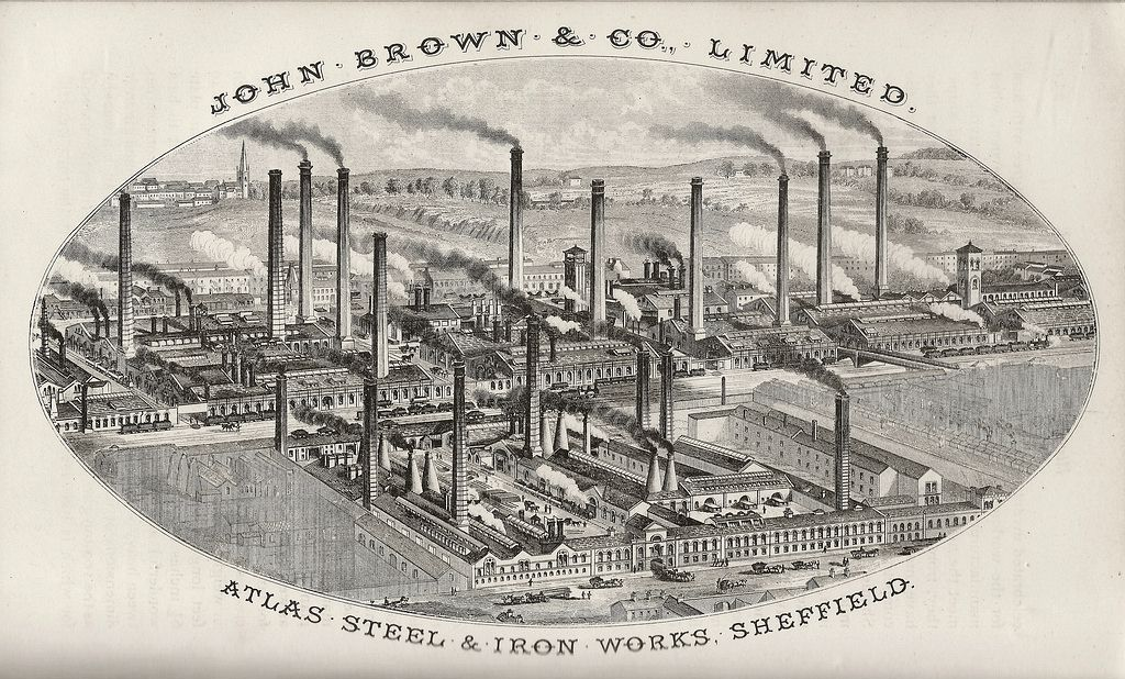 1879 engraving of Atlas Steel and Ironworks, Sheffield, South Yorkshire, England, owned by Sir John Brown. All Saints Church (demolished 1977), which John Brown paid for in 1866-1869, is visible in the background.